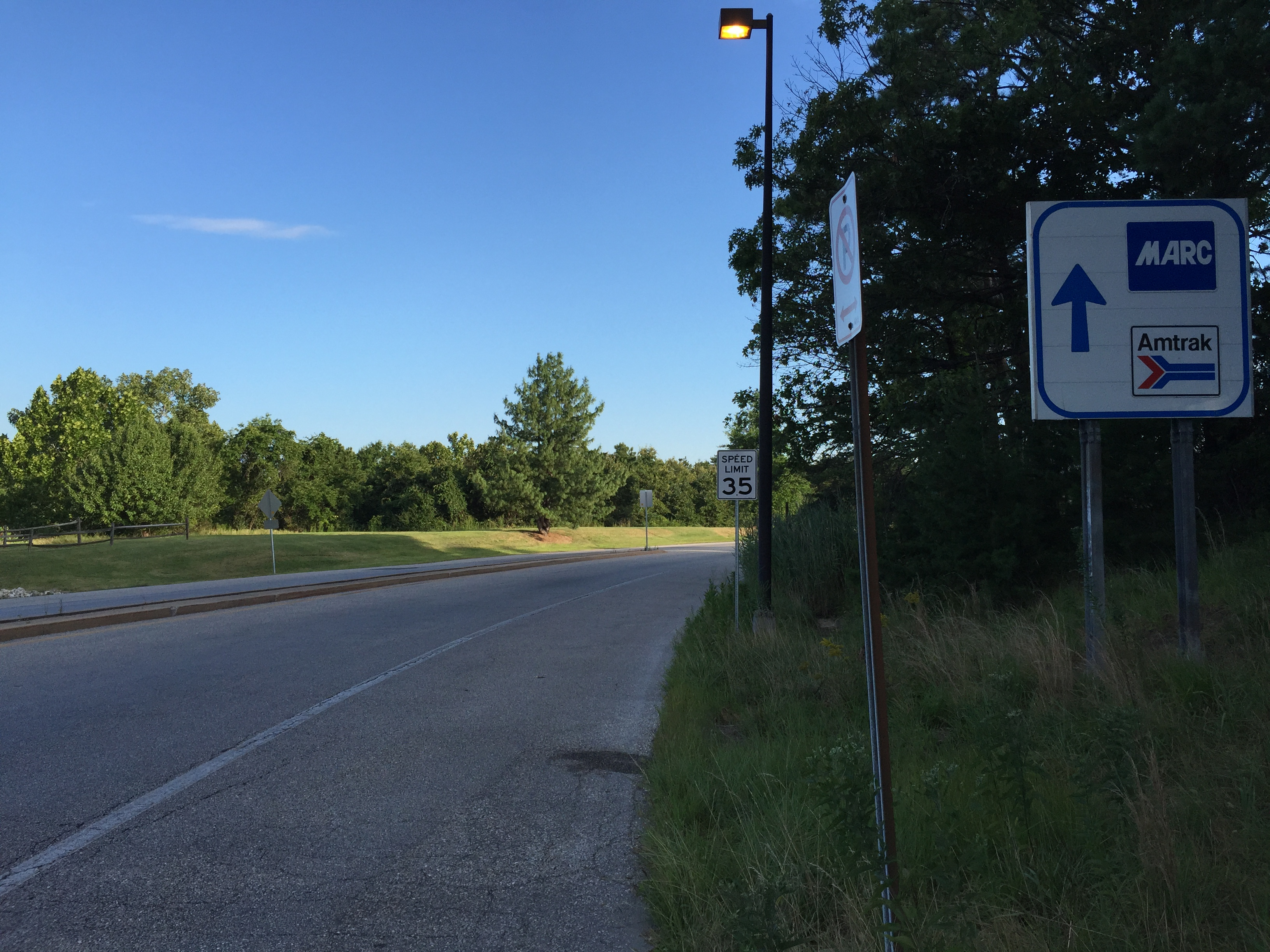 View north along Maryland State Route 995 (Amtrak Way) at Maryland State Route 170 (Aviation Boulevard) in Stony Run, Anne Arundel County, Maryland